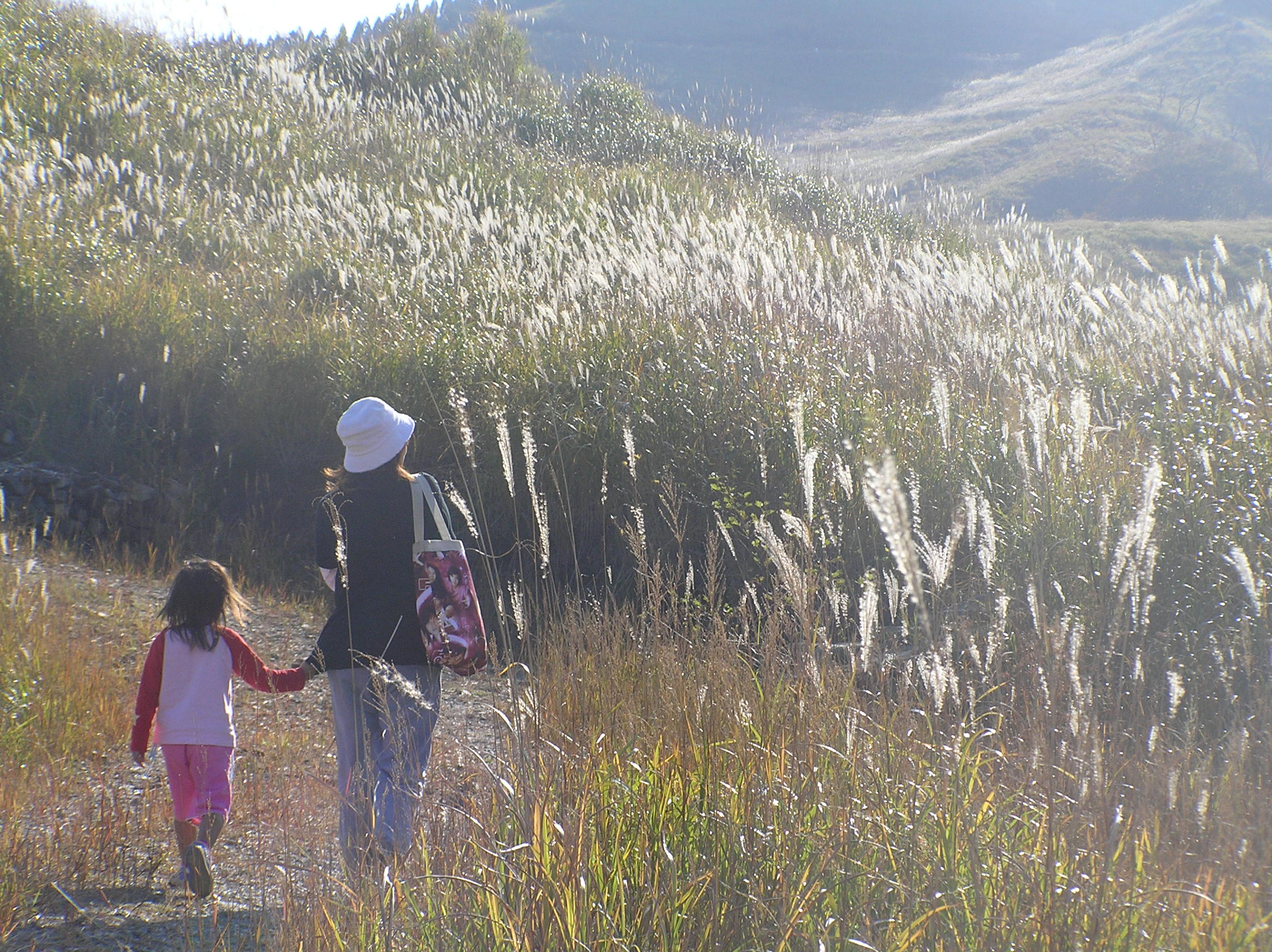 Tonomine highland